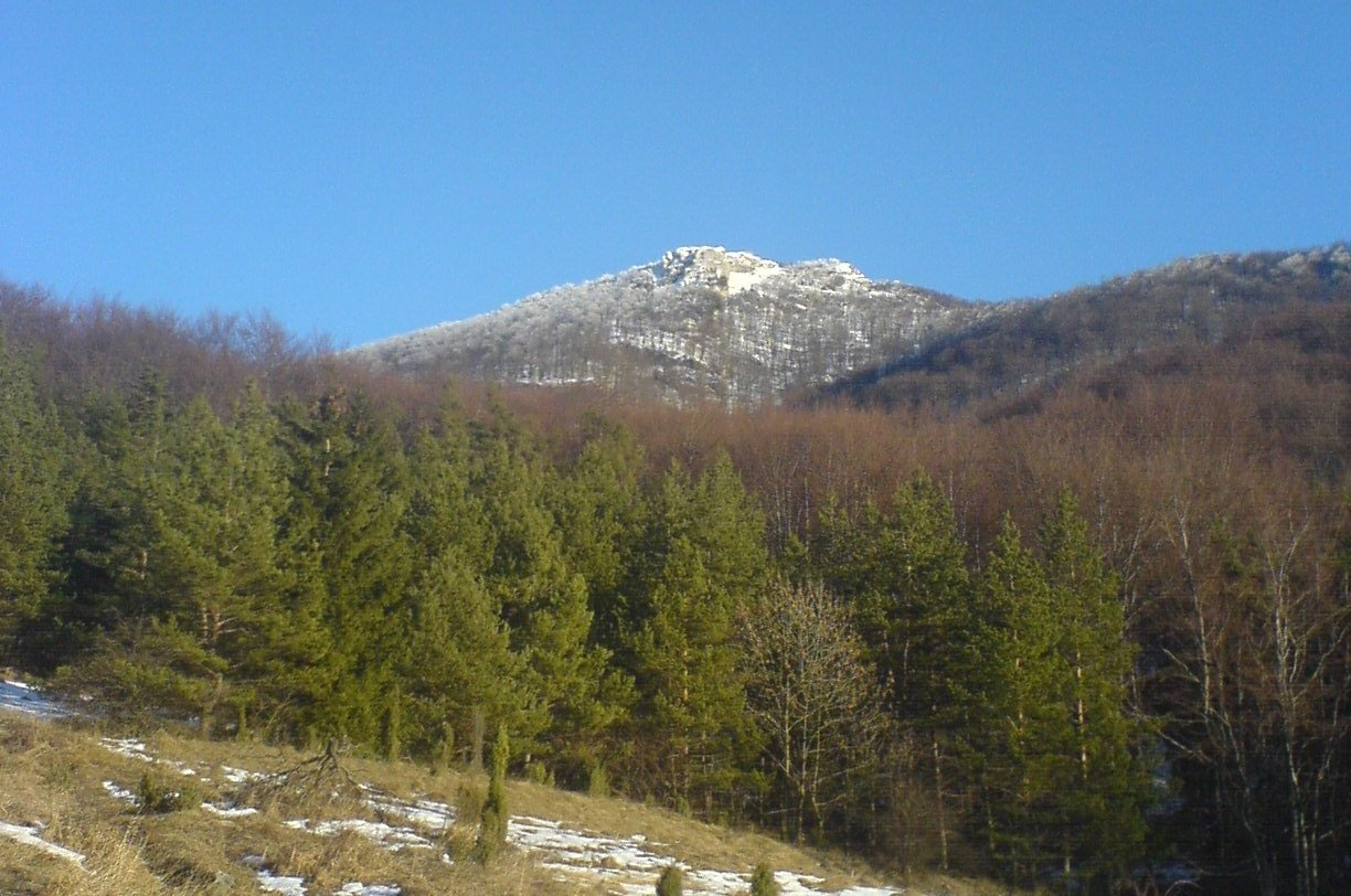 Strážov Mountain located in the Strážov Mountains, West Slovakia, as seen from the village of Zliechov